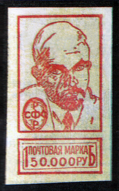 Fantastic stamp of M. Fontano. 1922, V. Lenin